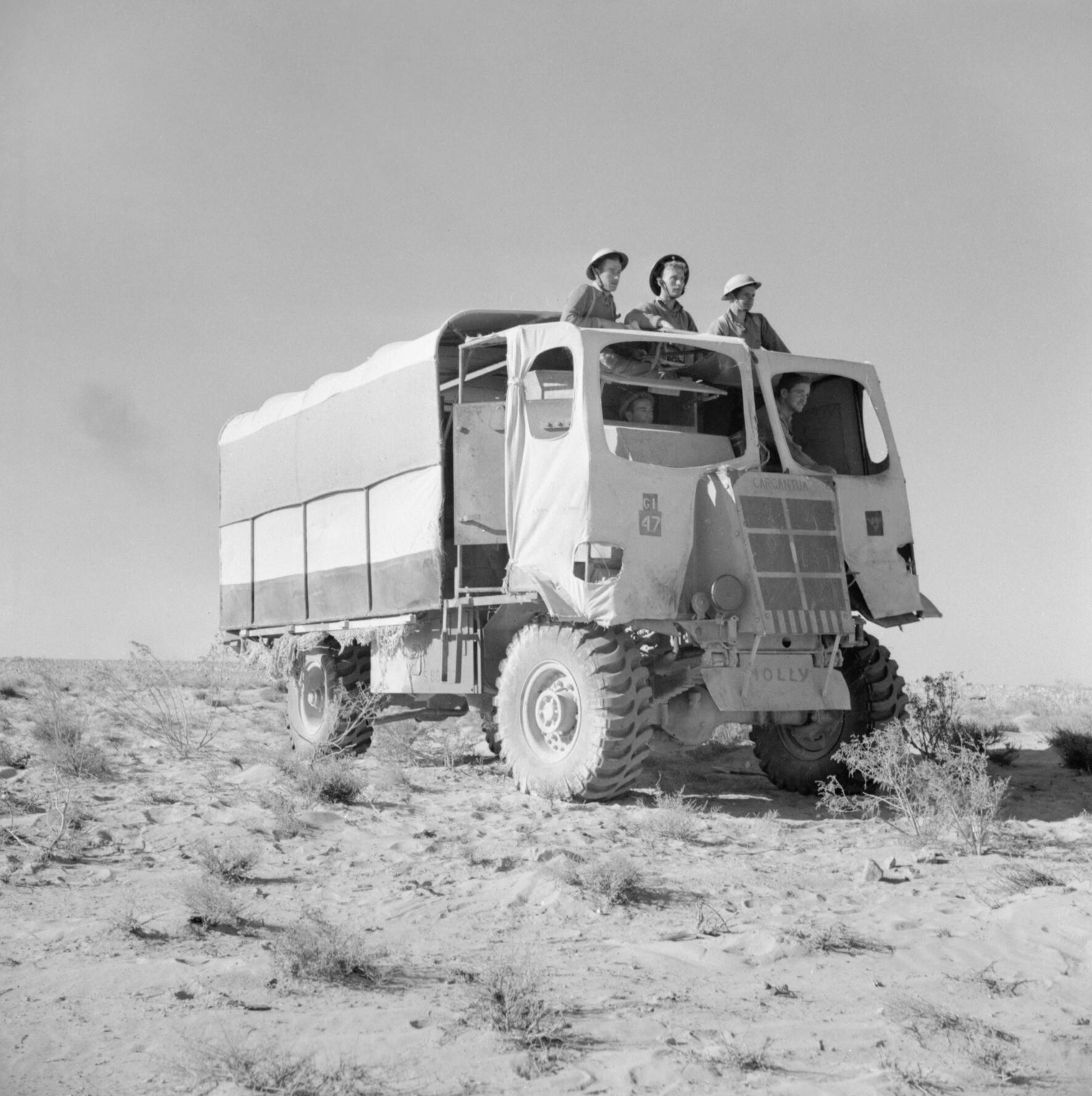 A 6-pdr anti-tank gun portee, camouflaged to look like an ordinary lorry, North Africa, 27 October 1942. A 6-pdr anti-tank gun semi-armoured portee, camouflaged to look like an ordinary lorry, 27 October 1942. (AEC Mk I Deacon)